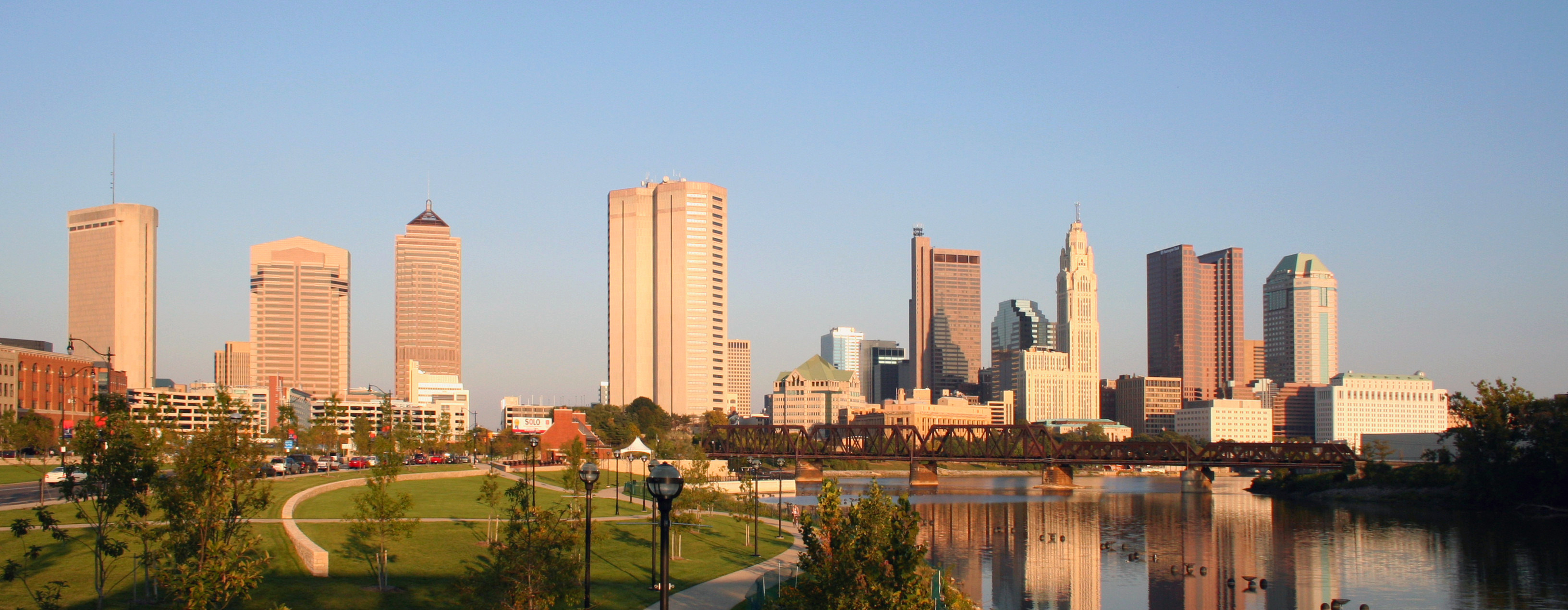 Columbus, Ohio. Photo shot by Derek Jensen (Tysto), 2006-01-23